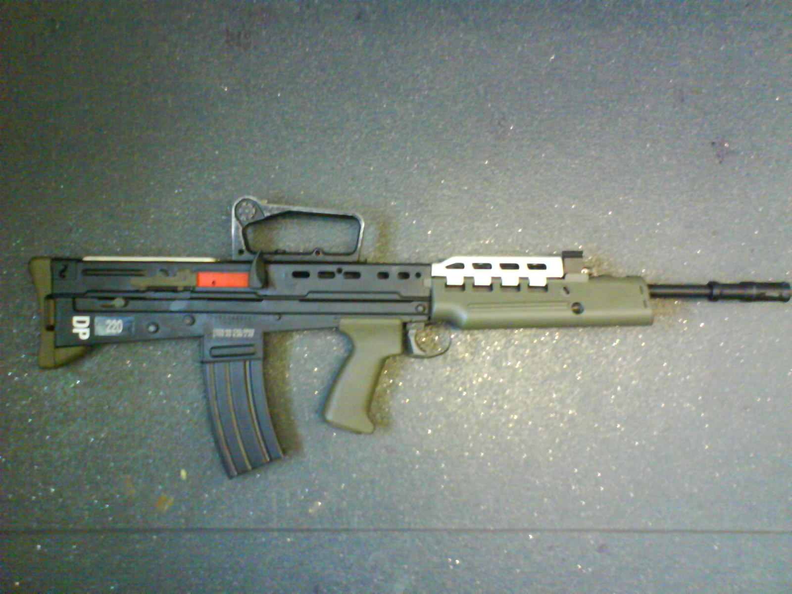 The L103A2 - a drill purpose version of the L98A2 - used by cadets for practising rifle drill and weapons handling tests. Note that the foresight has been removed due to its use as a drill rifle, the foresight obstructs a number of movements during drill.